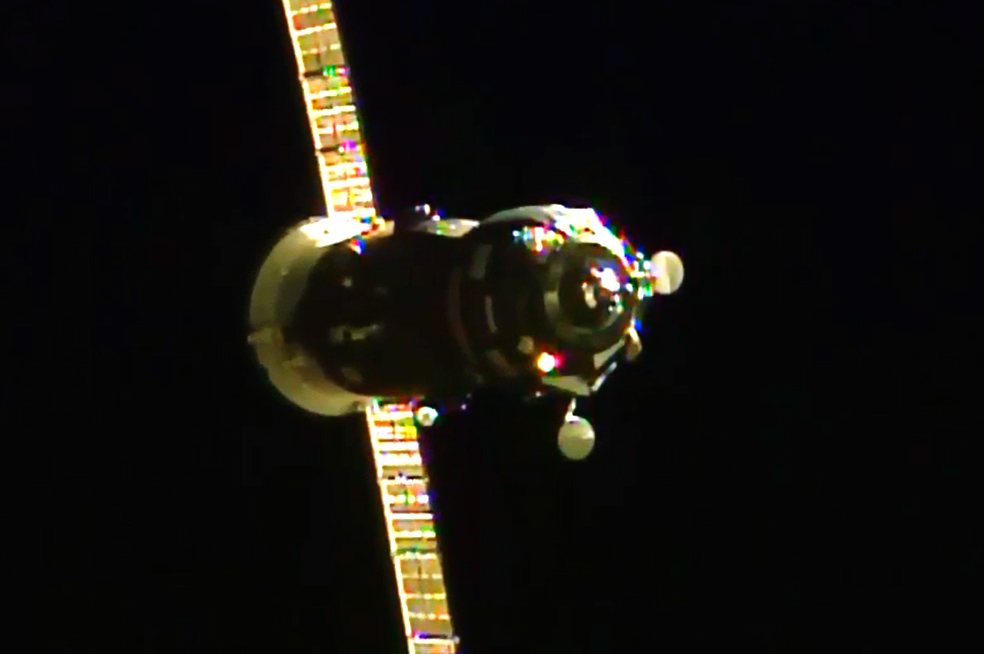 The ISS Progress 60 cargo craft is seen just a few minutes away from docking to the International Space Station.